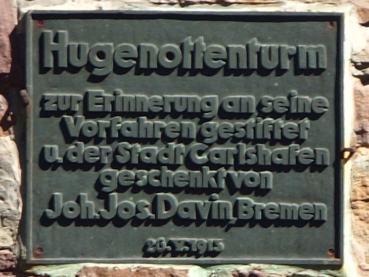 Cast-iron information board at tower Hugenottenturm in Bad Karlshafen